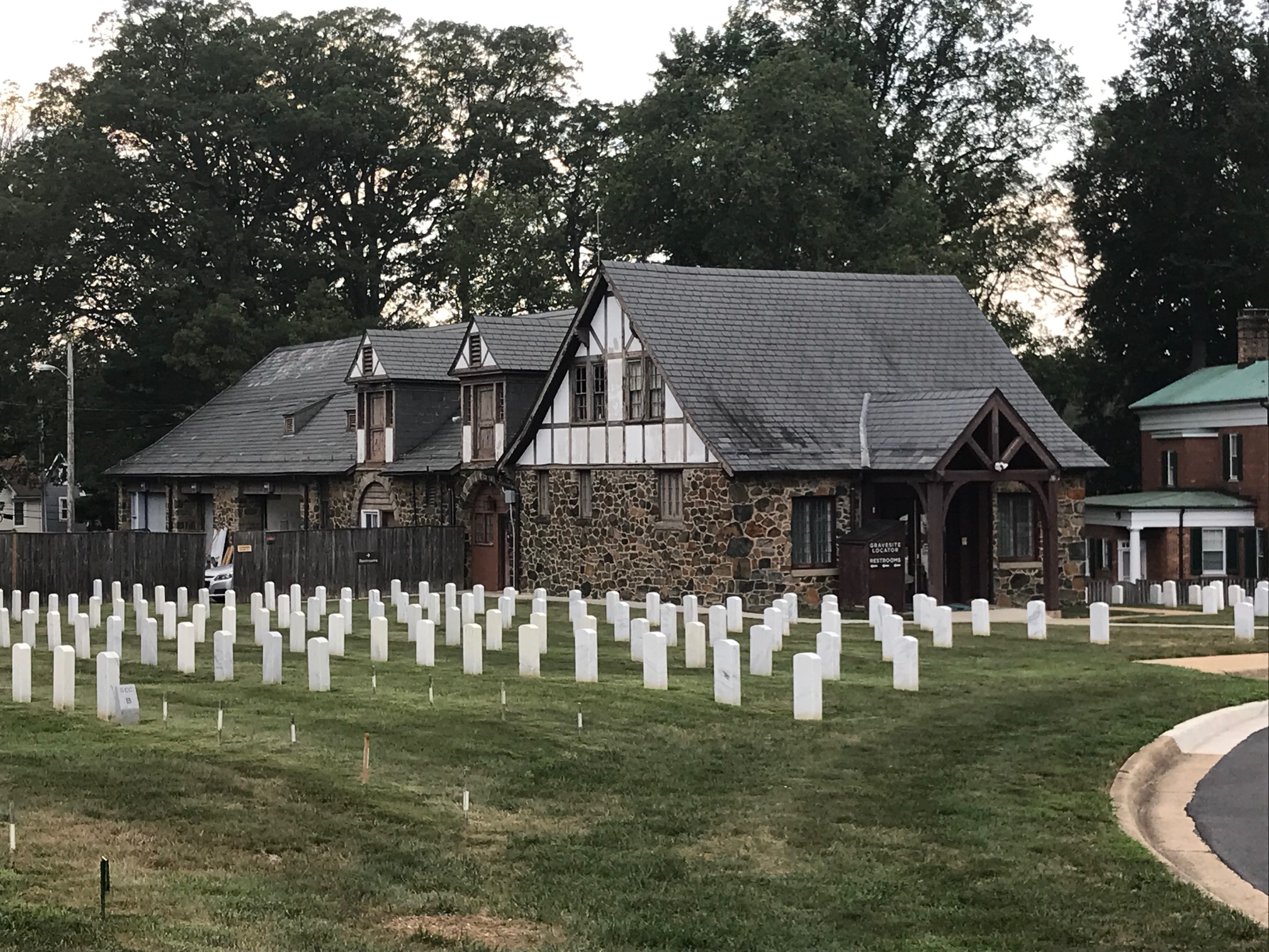 Baltimore National Cemetery - Durable 2019